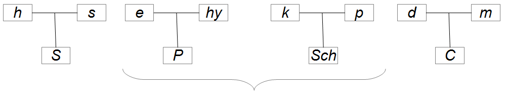 Diagram of Leopold Szondi Drive sysyem according to his book Lehrbuch der Experimentellen Triebdiagnostik (1972).